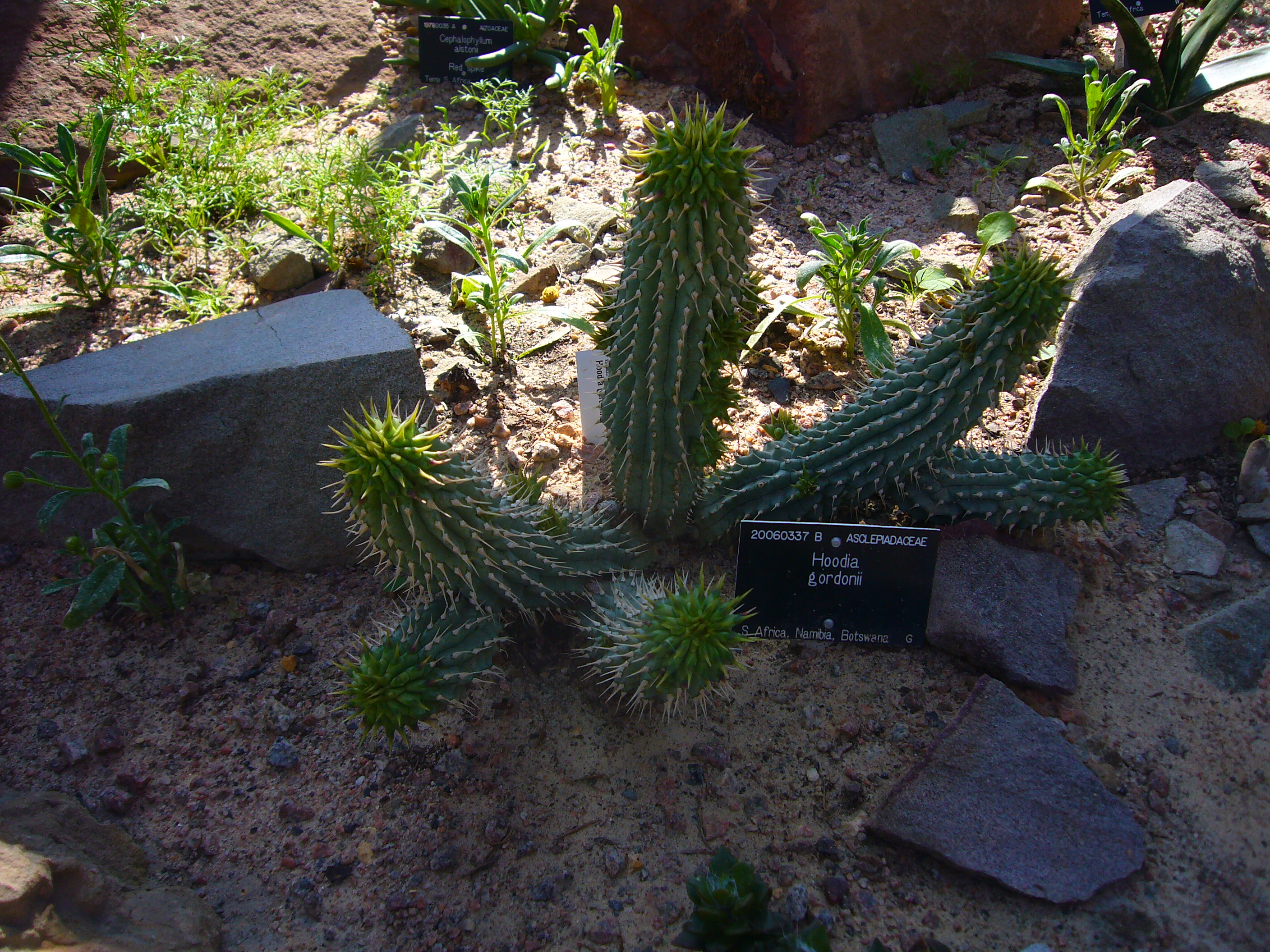 Hoodia gordonii (photo taken in the Cambridge University Botanic Garden)